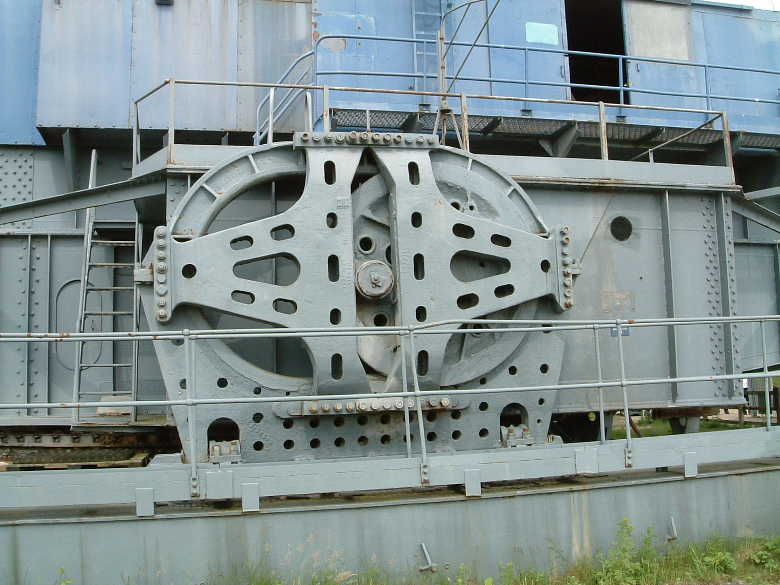 Detail of the Walking Mechanism on a UK Dragline